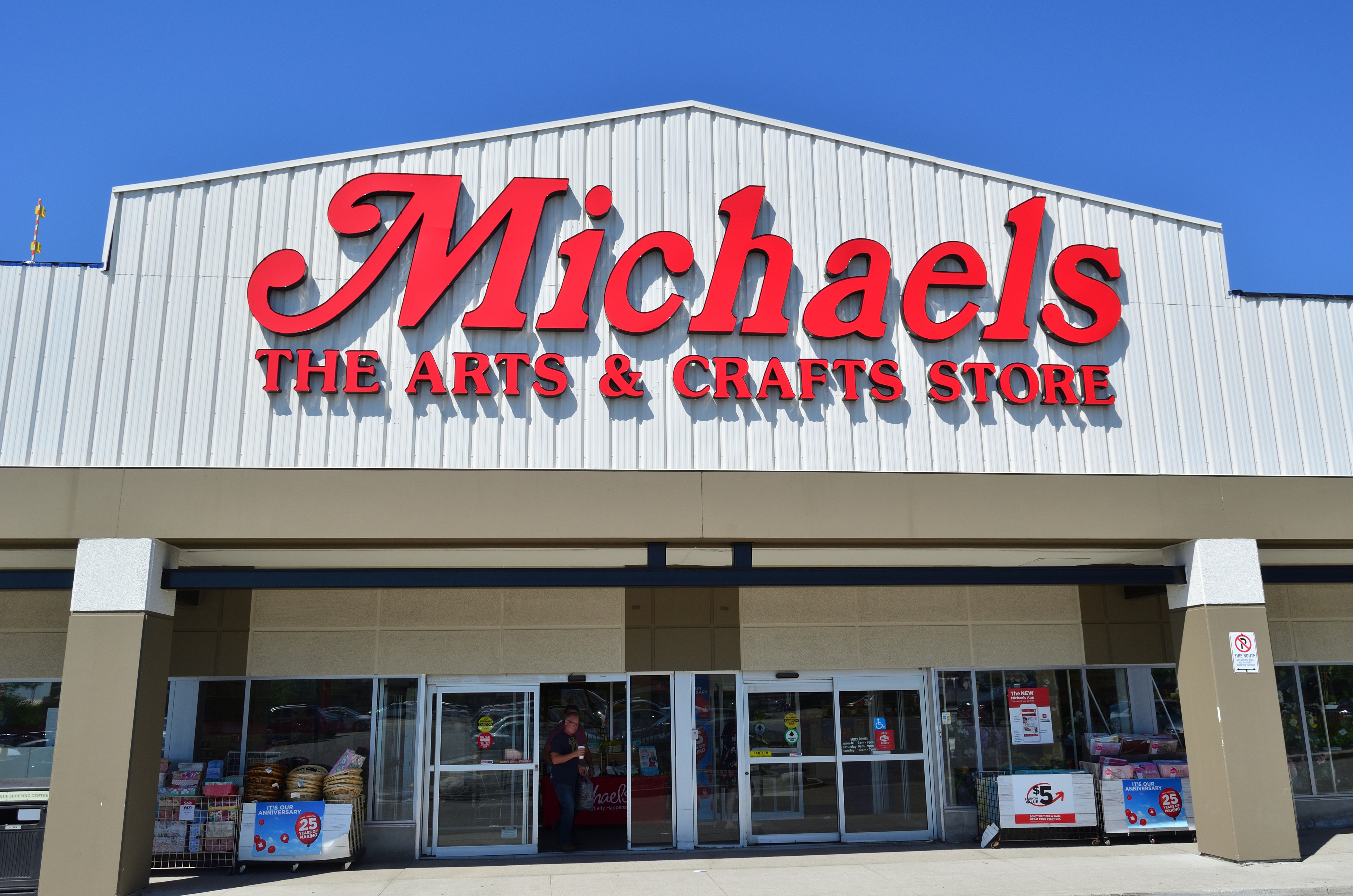 Michaels Arts and Crafts Store in Markham